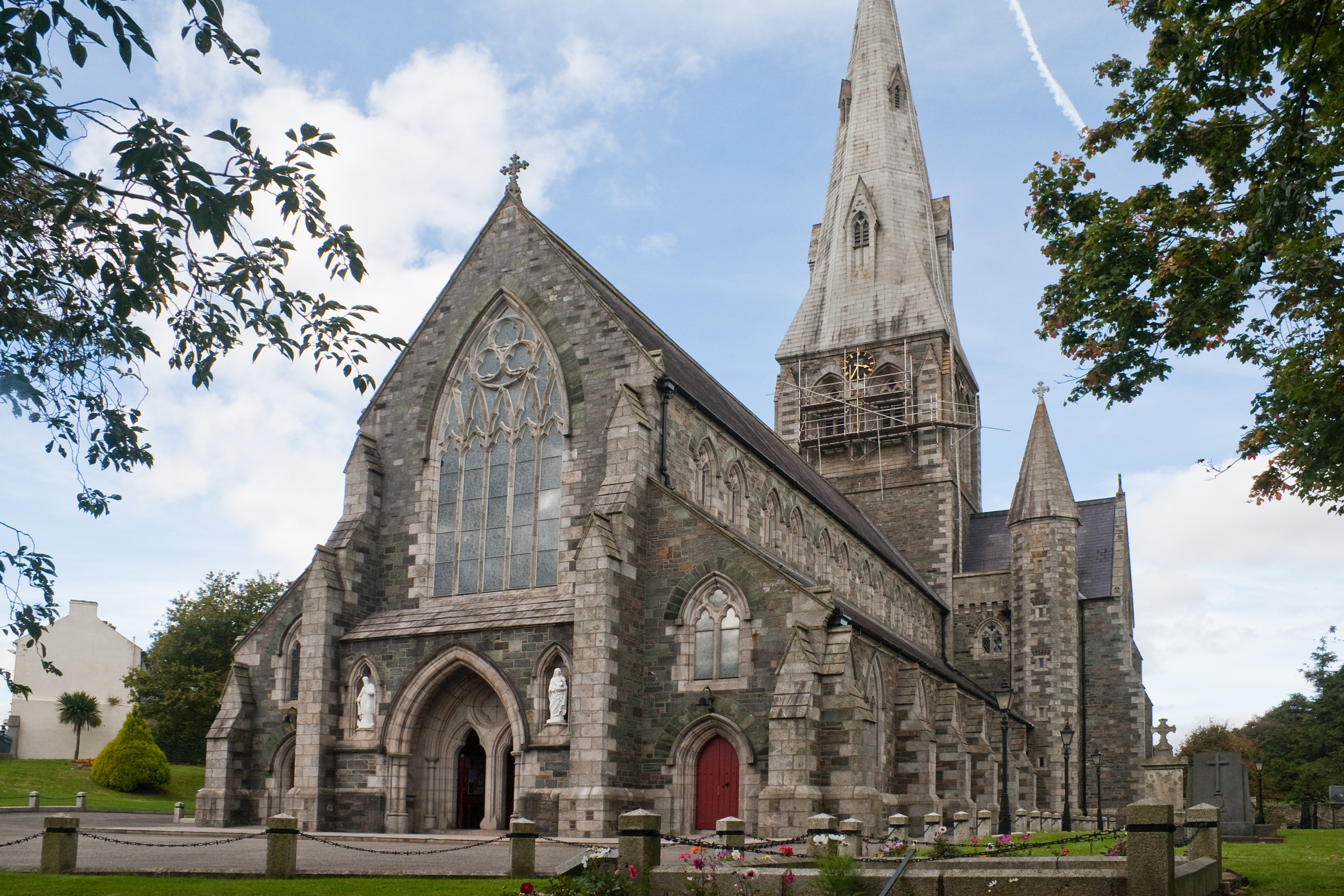 South-east view of St. Aidan's Cathedral.